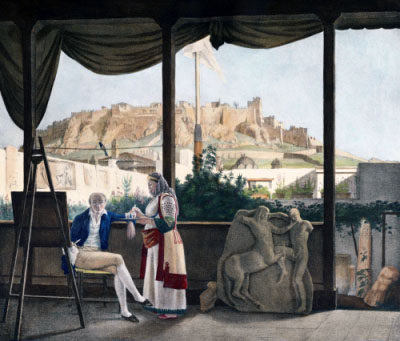 The French consul Fauvel at Athens. Lithograph